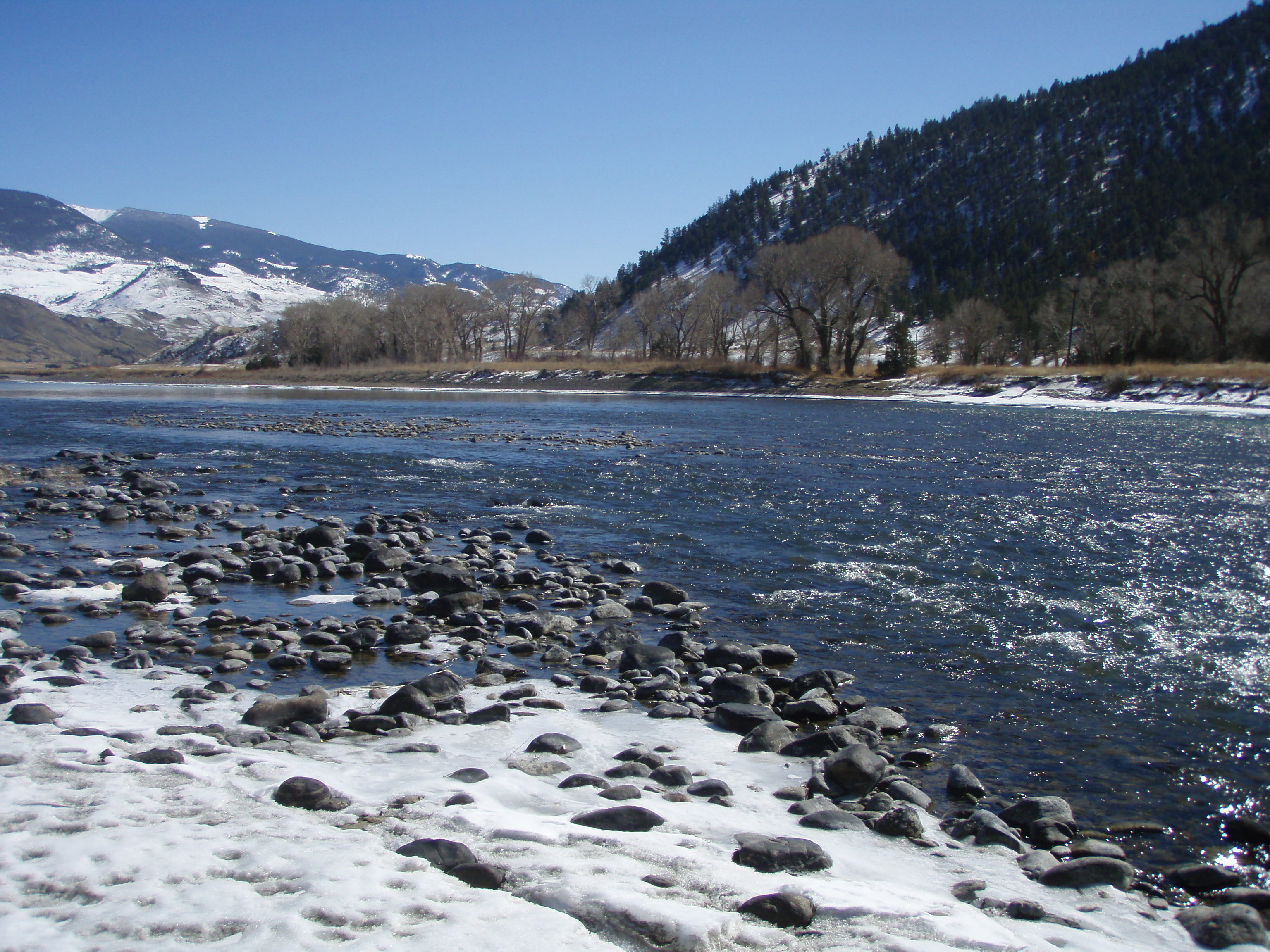 Yellowstone River just south of entrance to Yankee Jim Canyon, near Gardiner, Montana